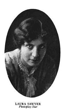 Actress Laaura Sawyer ca. 1913